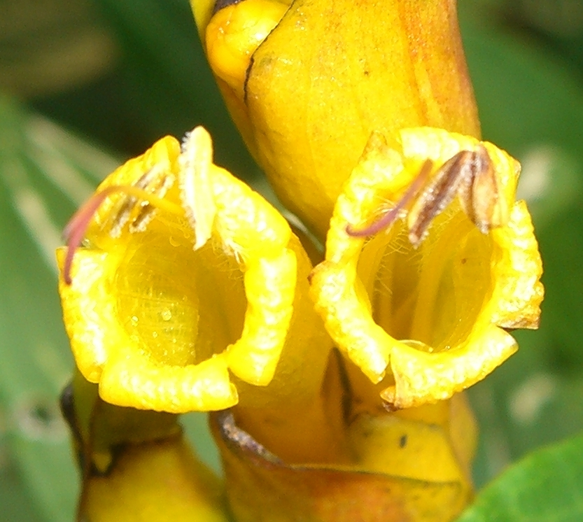 Please report references to .